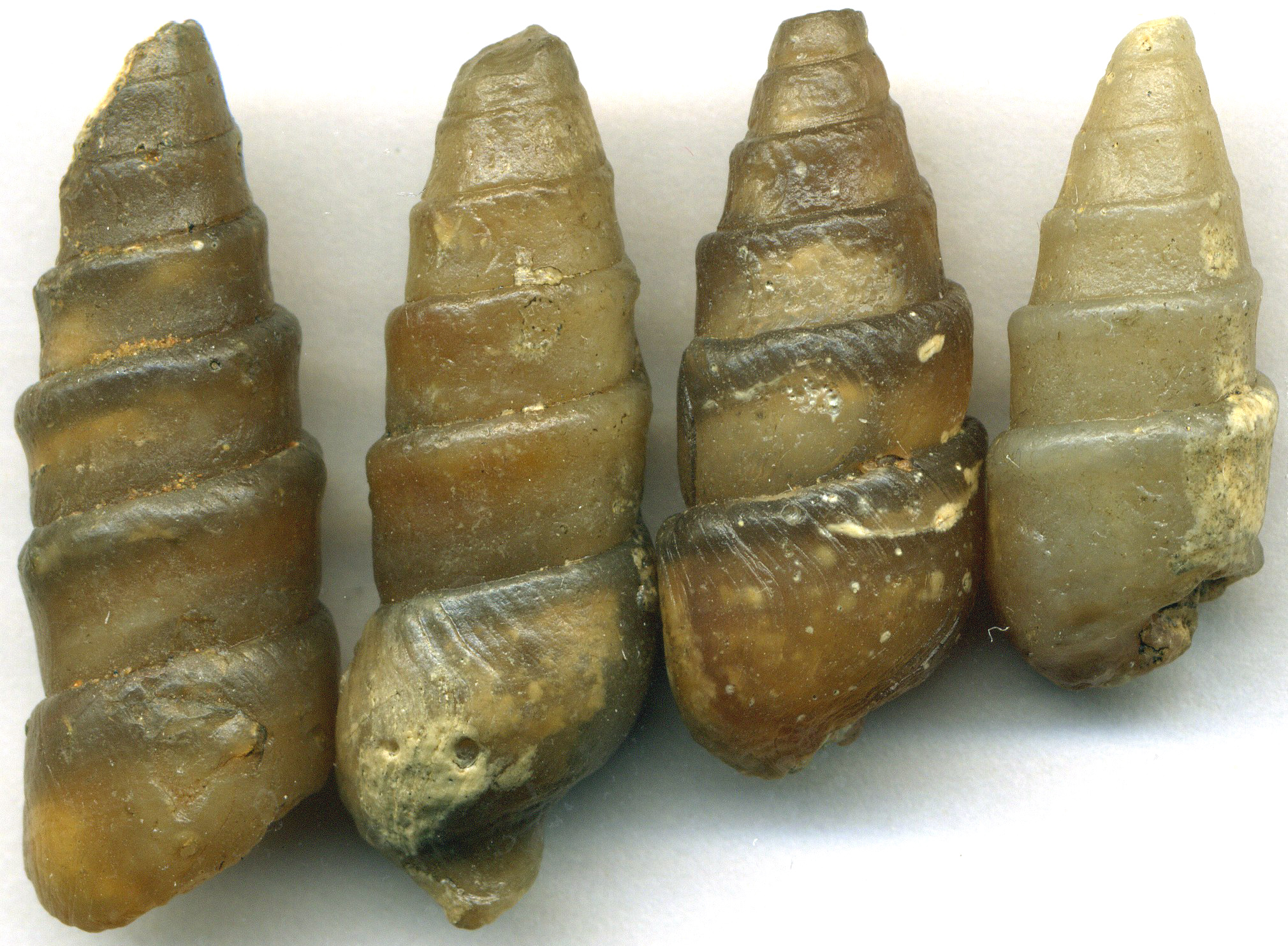 Chaledonized gastropods (specimen at far left is 3.0 cm tall) - these snail shells have been replaced by translucent, fibrous, microcrystalline quartz (SiO2). This variety of quartz is called chalcedony. Chalcedonization is a variety of silicification. Chalcedonized fossils are uncommon. Age: Cretaceous (apparently) Locality: unrecorded, variously attributed to either Dakhla, “Western Sahara” (= southern Morocco) or the Gobi Desert of eastern Asia. Replacement is a fossil preservation style involving the crystal structure and the mineral of an organism's hard parts being changed. The most common replacement mineral is quartz (silica) (SiO2) - fossils that have been replaced by quartz are said to be silicified (silicification). Many silicified fossils have rounded to pustulose structures covering their surfaces. These are called beekite rings, but they're composed of ordinary quartz. Other common replacment materials include the mineral pyrite (FeS2 - iron sulfide) and calcium phosphate. These replacement styles are called pyritization and phosphatization. Numerous other minerals have been found replacing minerals - many of them are quite rare. Reported fossil replacement minerals include: anglesite, apatite, barite, calamine, calcite, cassiterite, celestite, cerargyrite, cerussite, chalcocite, cinnabar, copper, dolomite, fluorite, galena, garnet, glauconite, gumbelite, gypsum, hematite, kaolinite, limonite, magnesite, malachite, marcasite, margarite, opal, pyrite, romanechite/psilomelane, siderite, silica/quartz, silver, smithsonite, specular hematite, sphalerite, sulfur, uranium minerals, and vivianite. (List mostly from info. in Hartzell, 1906 and Klein & Hurlbut, 1985)